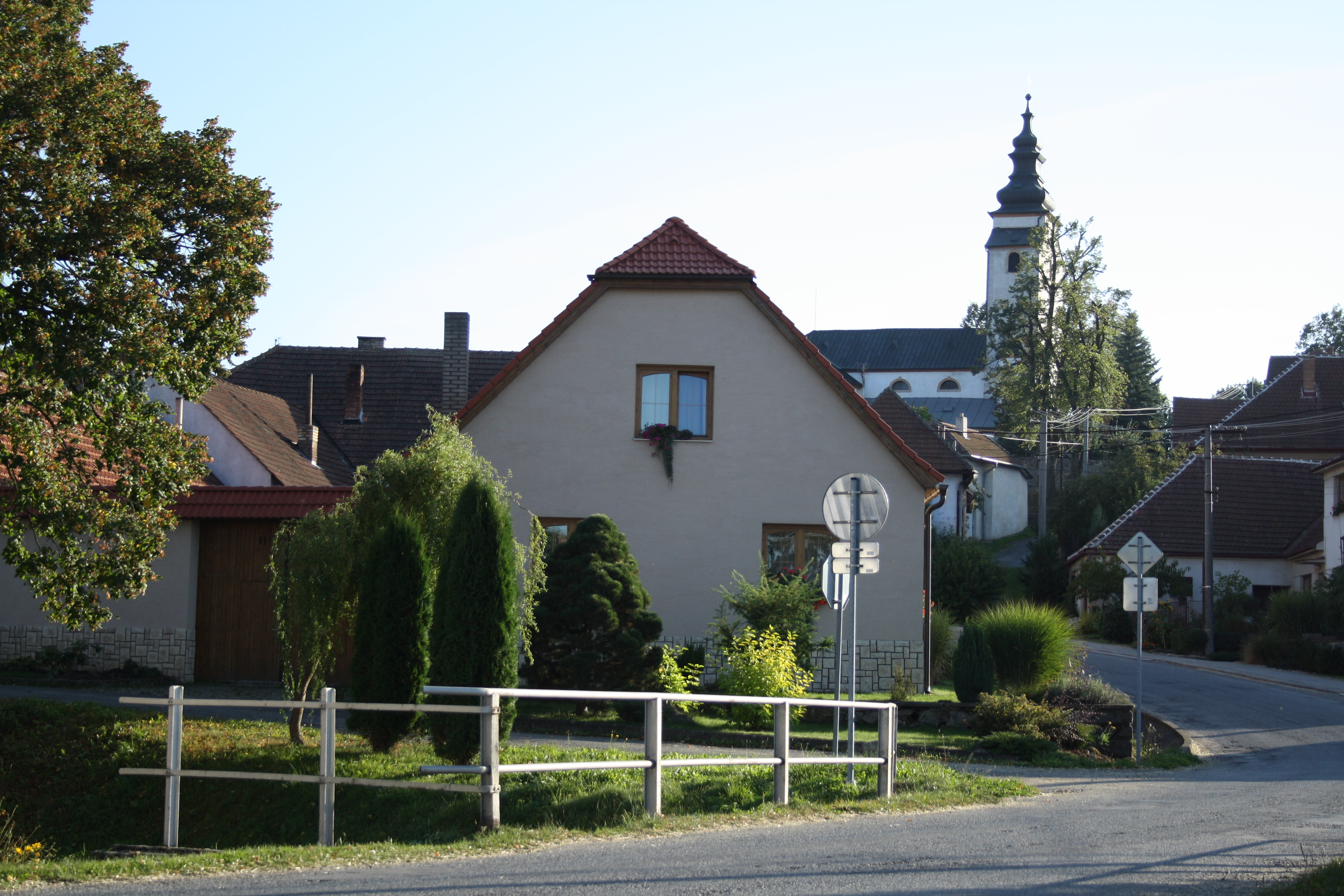 Center of village Červená Lhota with church of St. Lawrence.